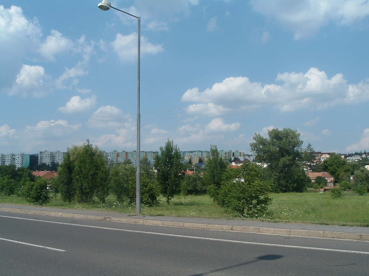 Nagykürtös (Veľký Krtíš), Slovakia